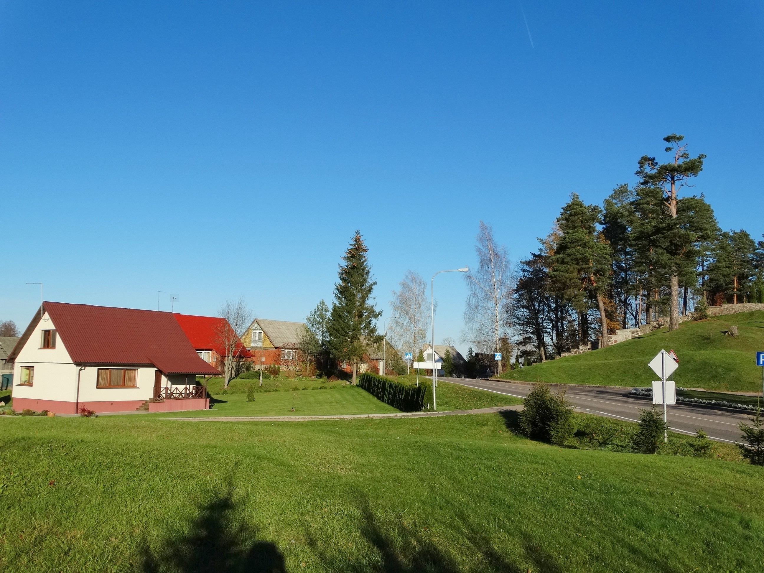 Pivašiūnai, Alytus district, Lithuania